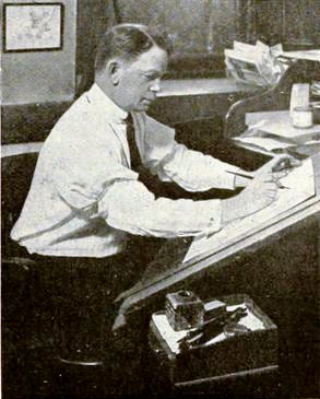 American cartoonist Clare A. Briggs, on page 669 of the May 3, 1919 Moving Picture World.